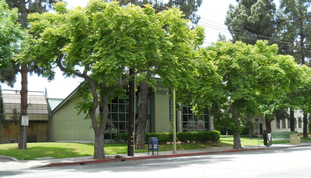 The West Valley Regional Branch Library, a Los Angeles Public Library branch — in Reseda, a community of the western San Fernando Valley, in Los Angeles.